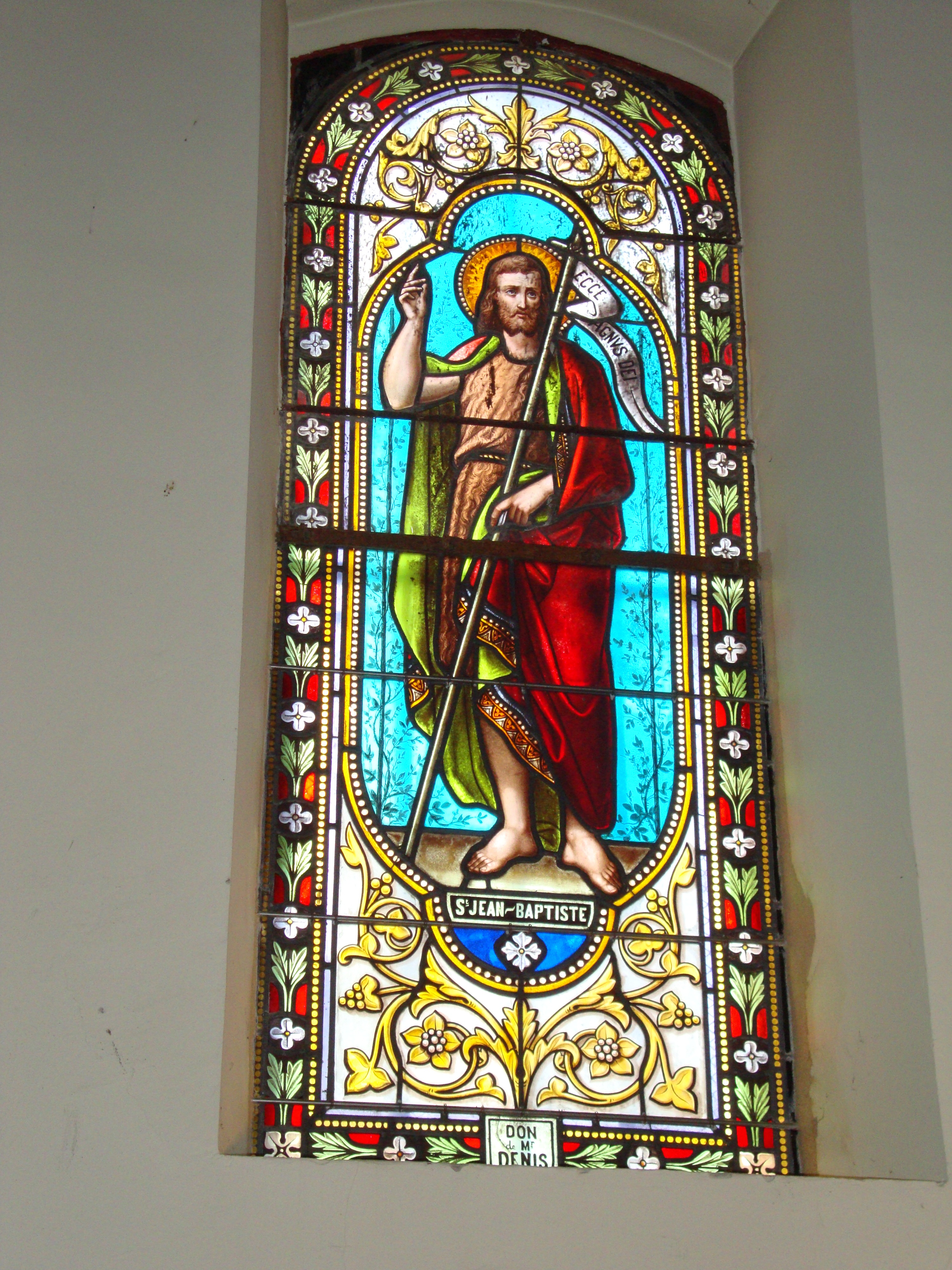 Jatxou (Pyr-Atl. Fr) stained galss window in the church St.Sébastien, St.Jean-Baptiste